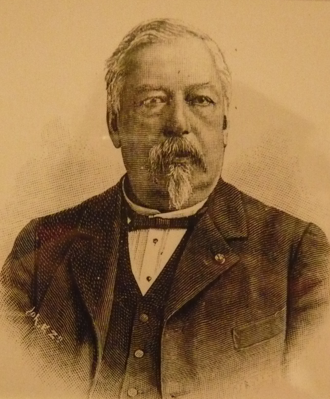 Adriaan Justus Enschedé, portrait in the Coin cabinet of the Teylers Museum